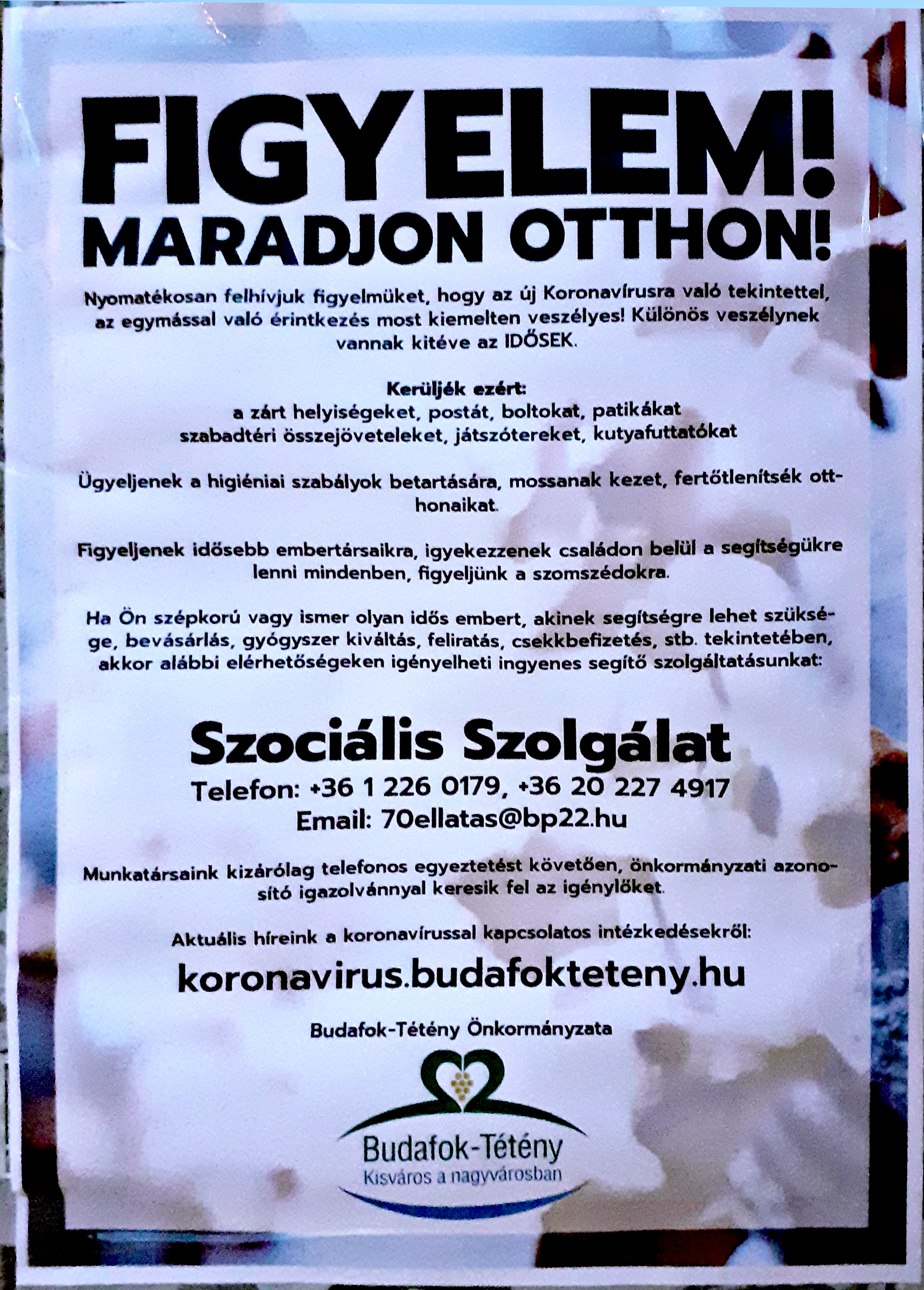 Coronavirus warning